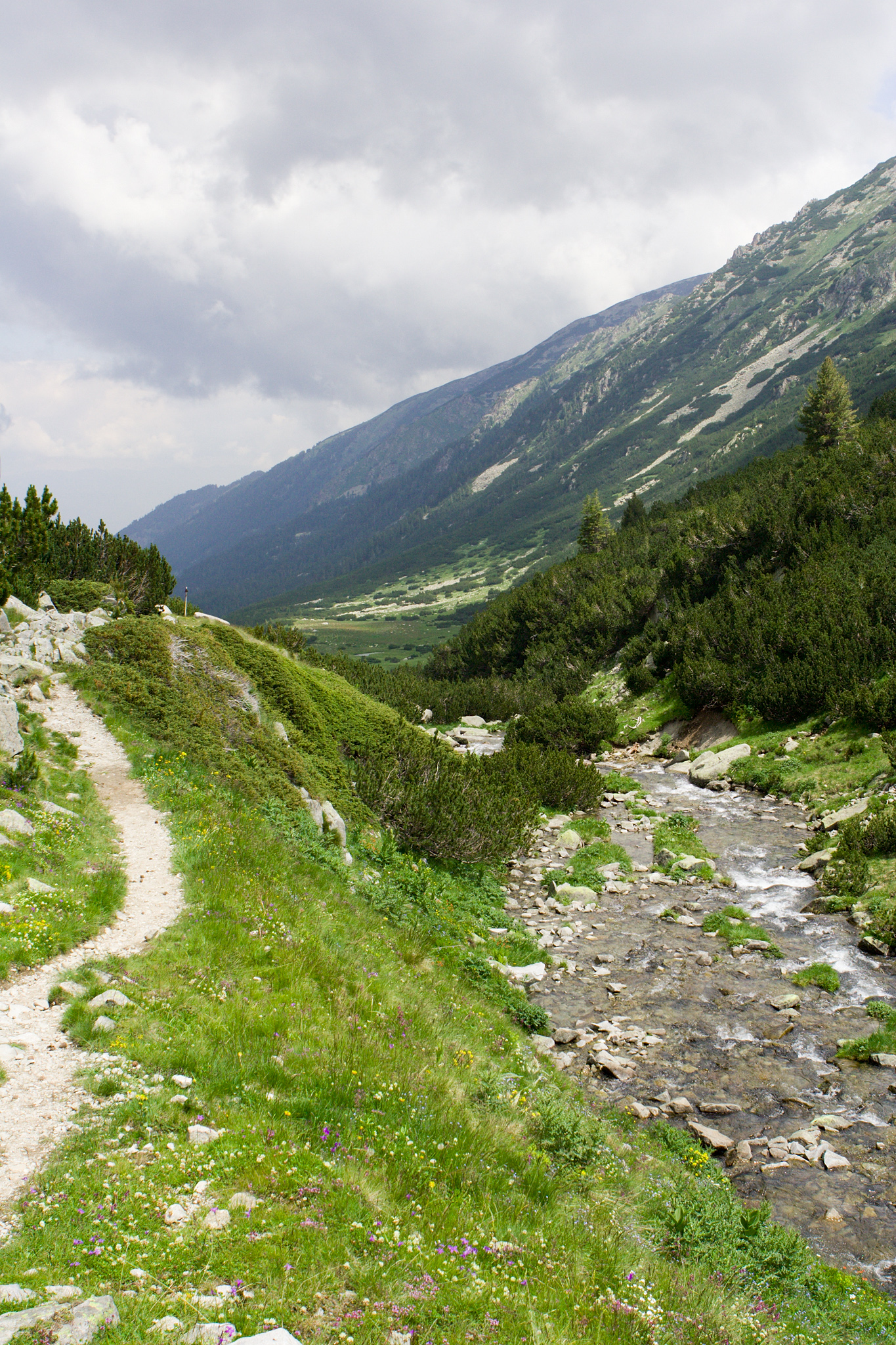 Demjanitsa river nearby Tijacite, Pirin mountain, Bulgaria